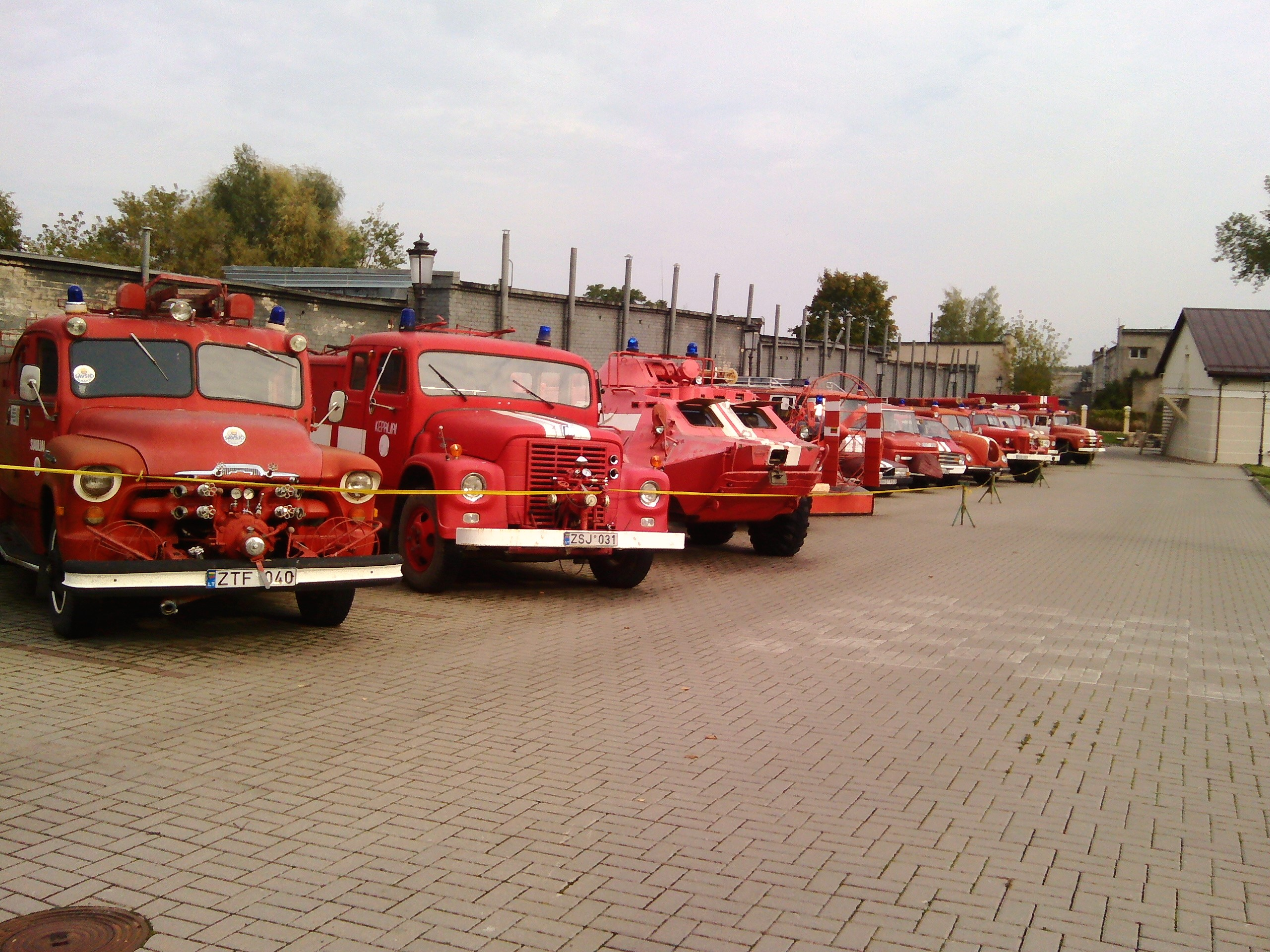 Fire engines in Šiauliai